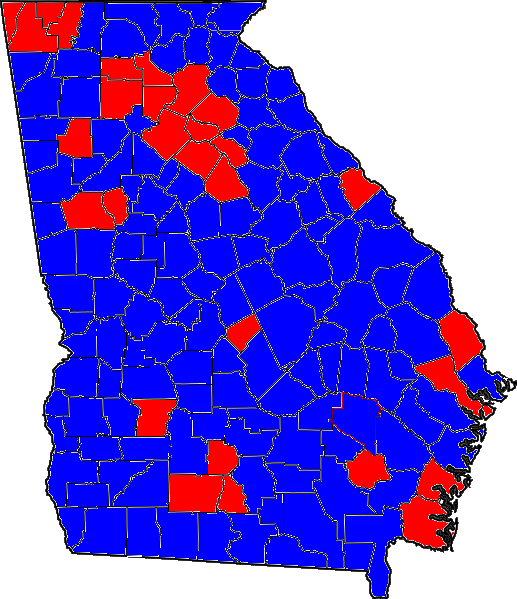 2006 Georgia Secretary of Agriculture election results by county.